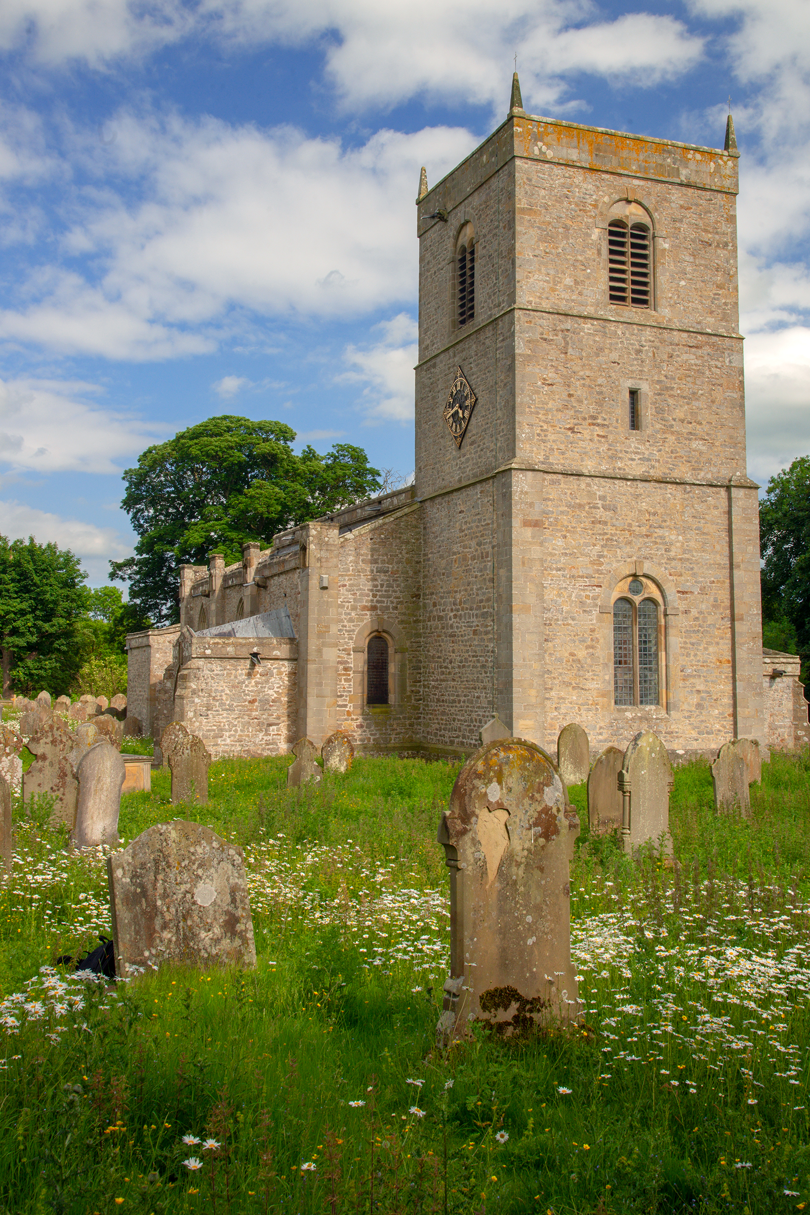 The front of the church.